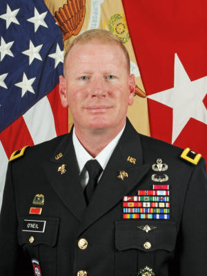 Photo of Brigadier General John E. O'Neil IV 52nd Quartermaster General